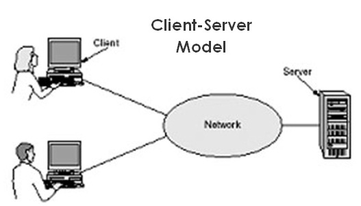 This is a Client-Server Model